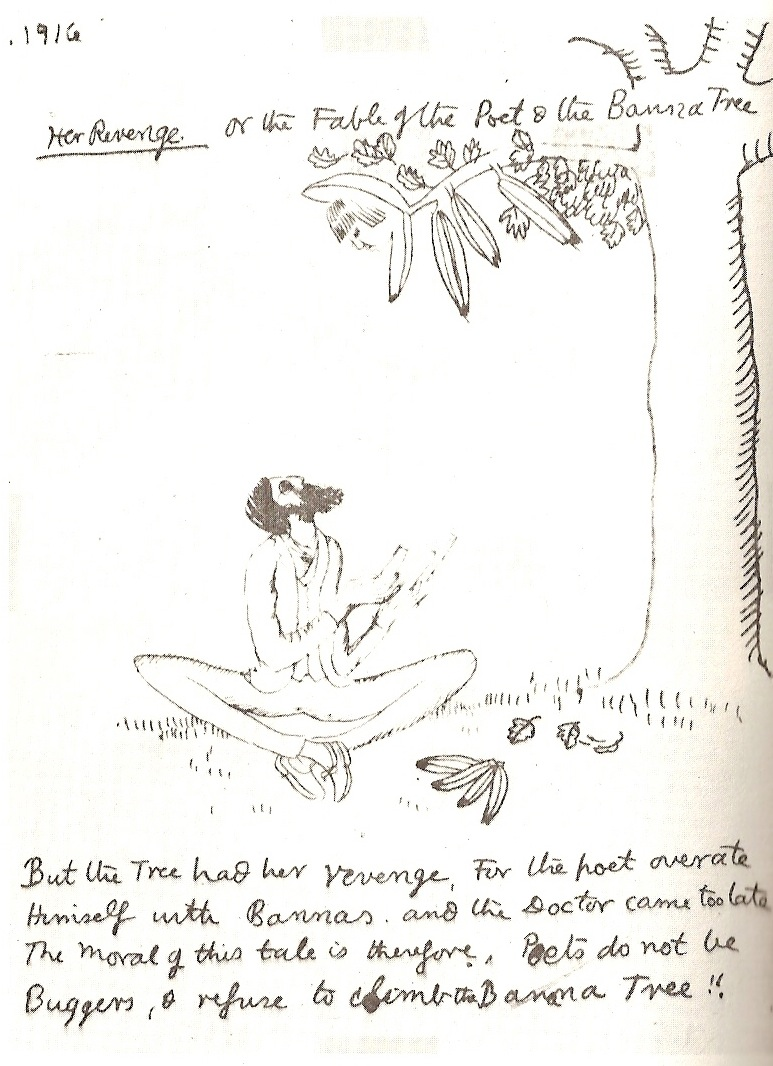 The Banana Tree: facsimile of a letter (written probably late in 1916) from painter Carrington to writer Lytton Strachey